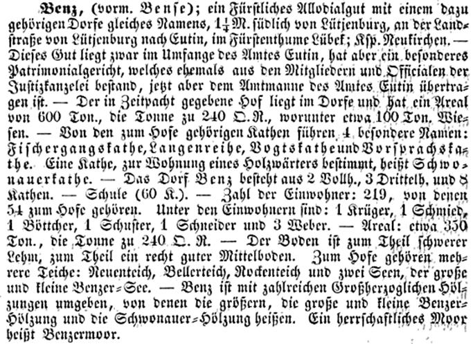 description of the village Benz in a Topographie 1841